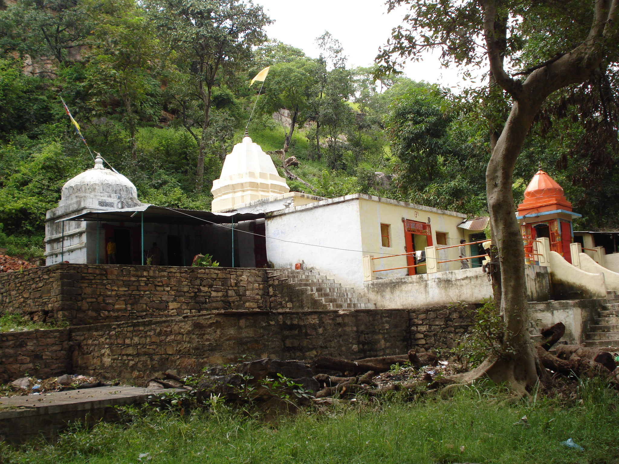 Taxakeshwar Temple in Mandsaur district Madhya Pradesh, India